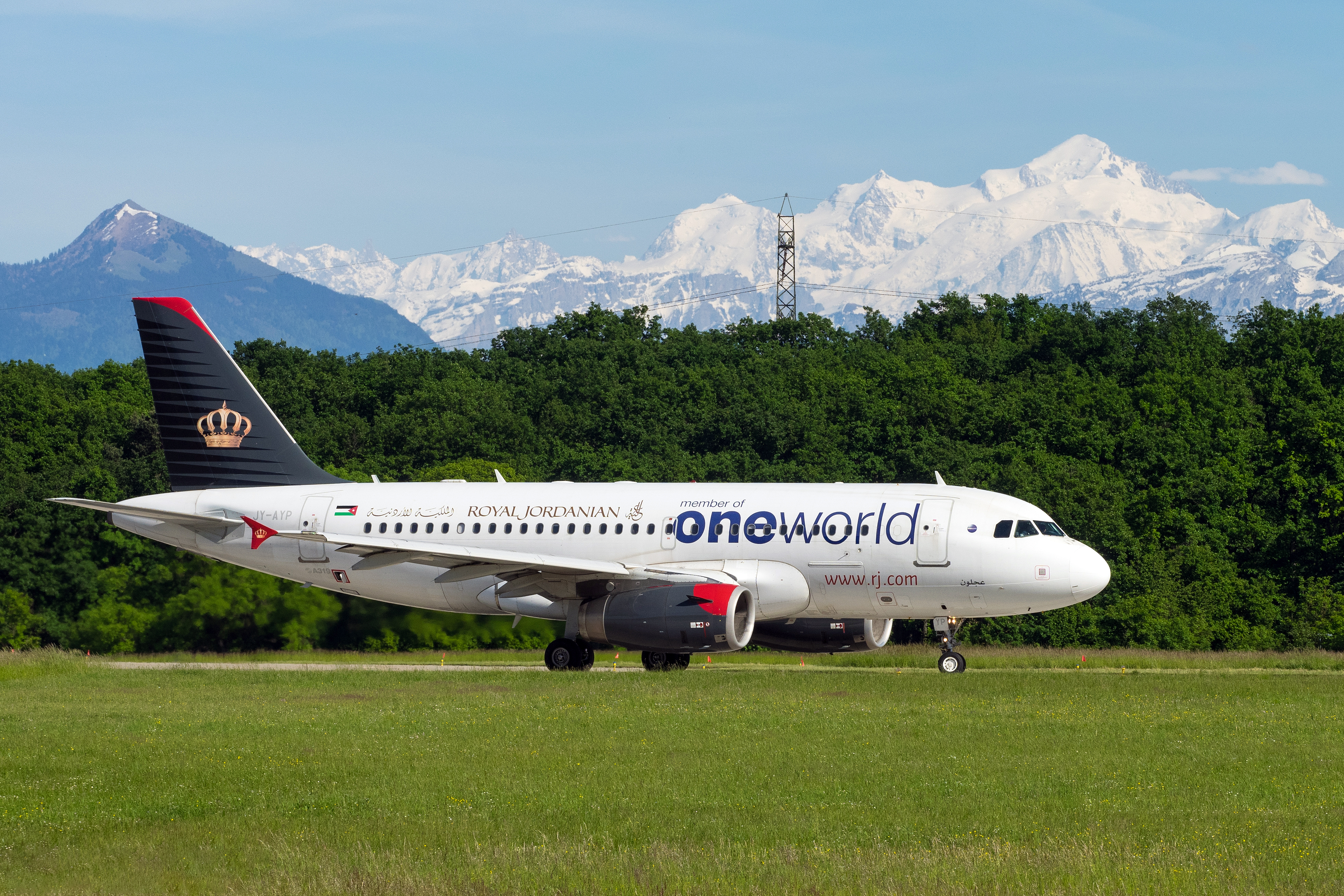 Geneva International Airport